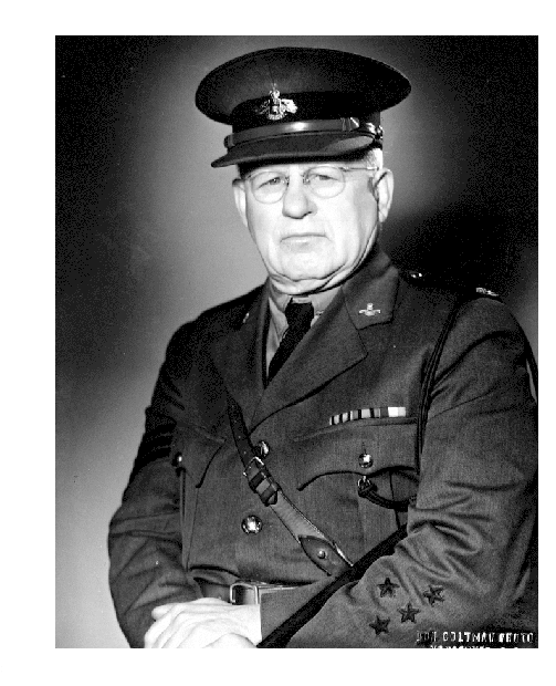 Photographer Coltman Photo taken 1946 Source BC Archives # F-02731 [1]